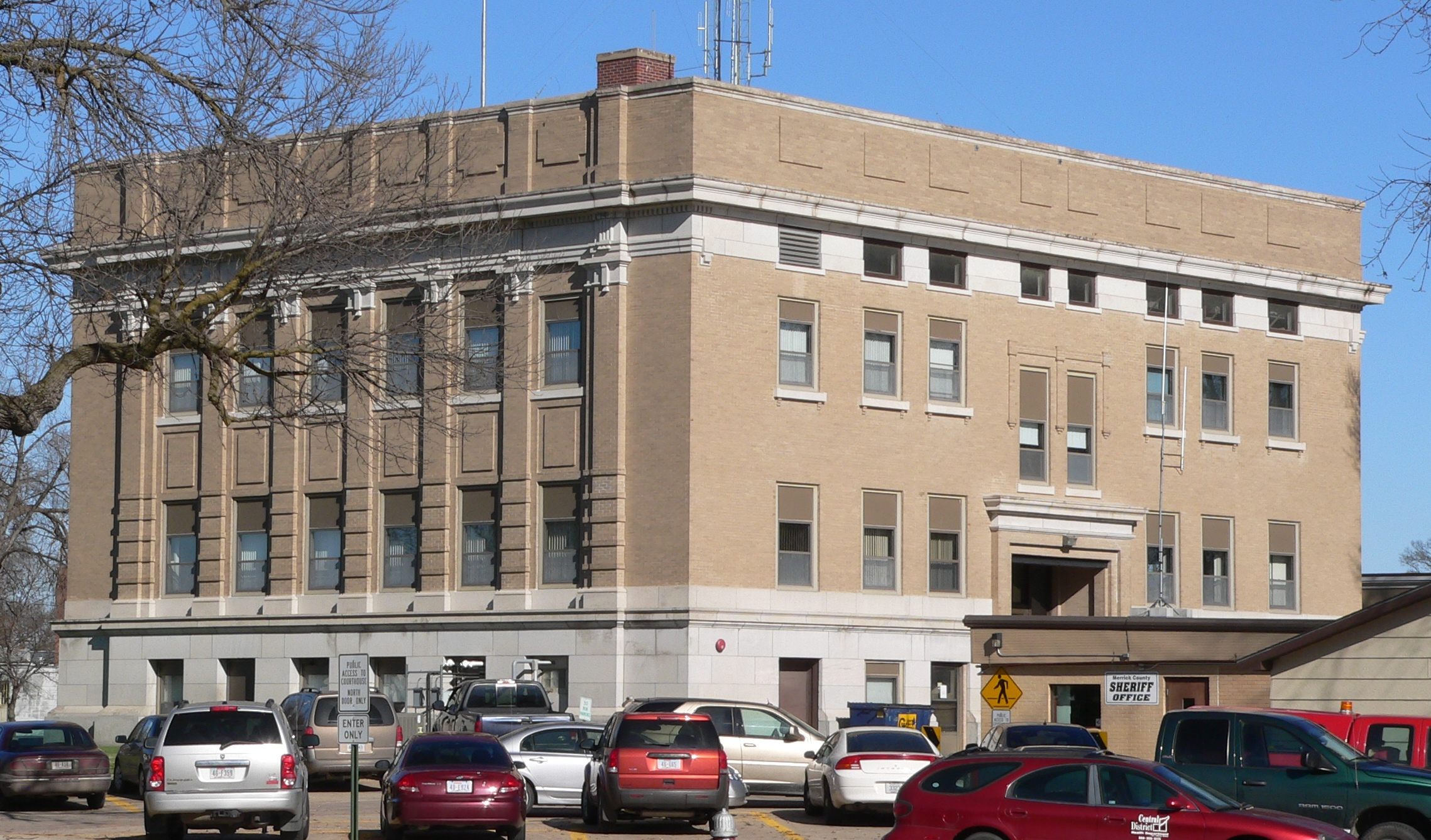 Merrick County Courthouse in Central City, Nebraska, seen from the southwest. The courthouse was designed in Classical Revival style by architect William F. Gernandt and built in 1911. It is listed in the National Register of Historic Places.